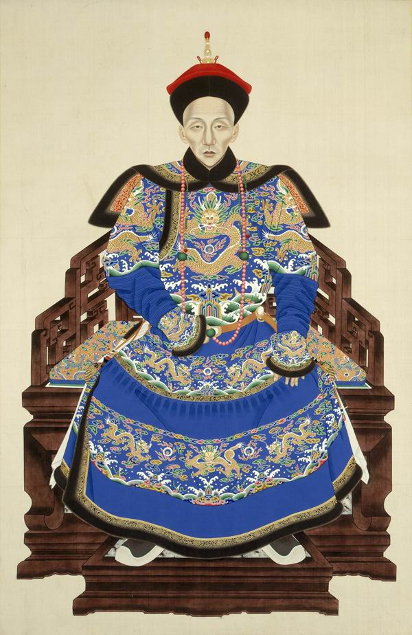 Fujing, Prince Yi